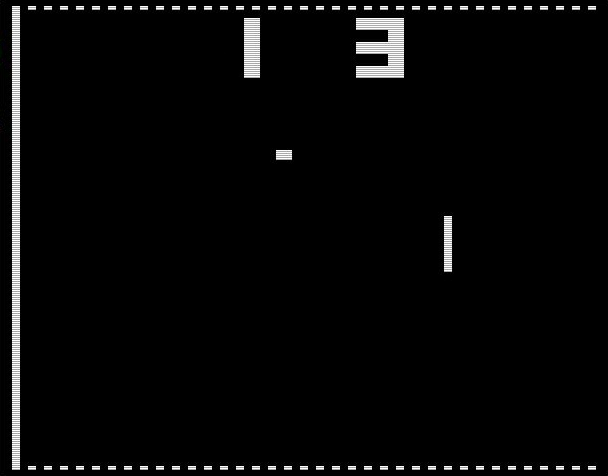 Screenshot Practice AY-3-8500